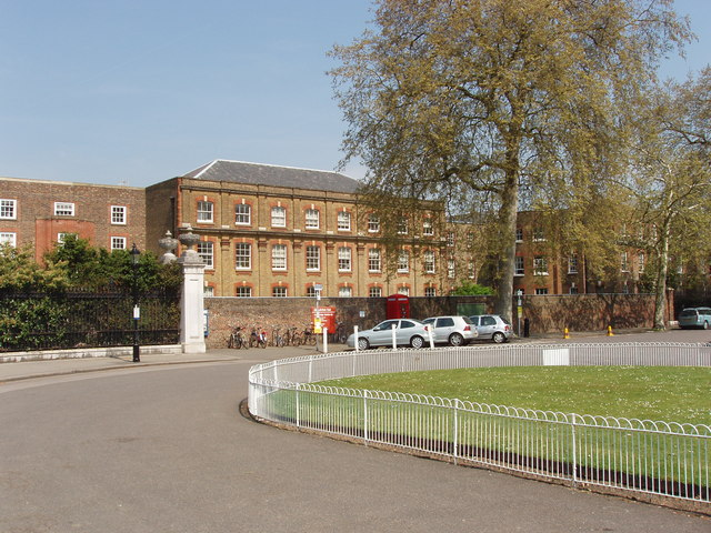 Herbarium, Kew Gardens. Site for some of the important scientific work of the Royal Botanic Gardens, the herbarium contains over 7 million plant specimens. See Kew Gardens website View from outside the main gate of Kew Gardens.